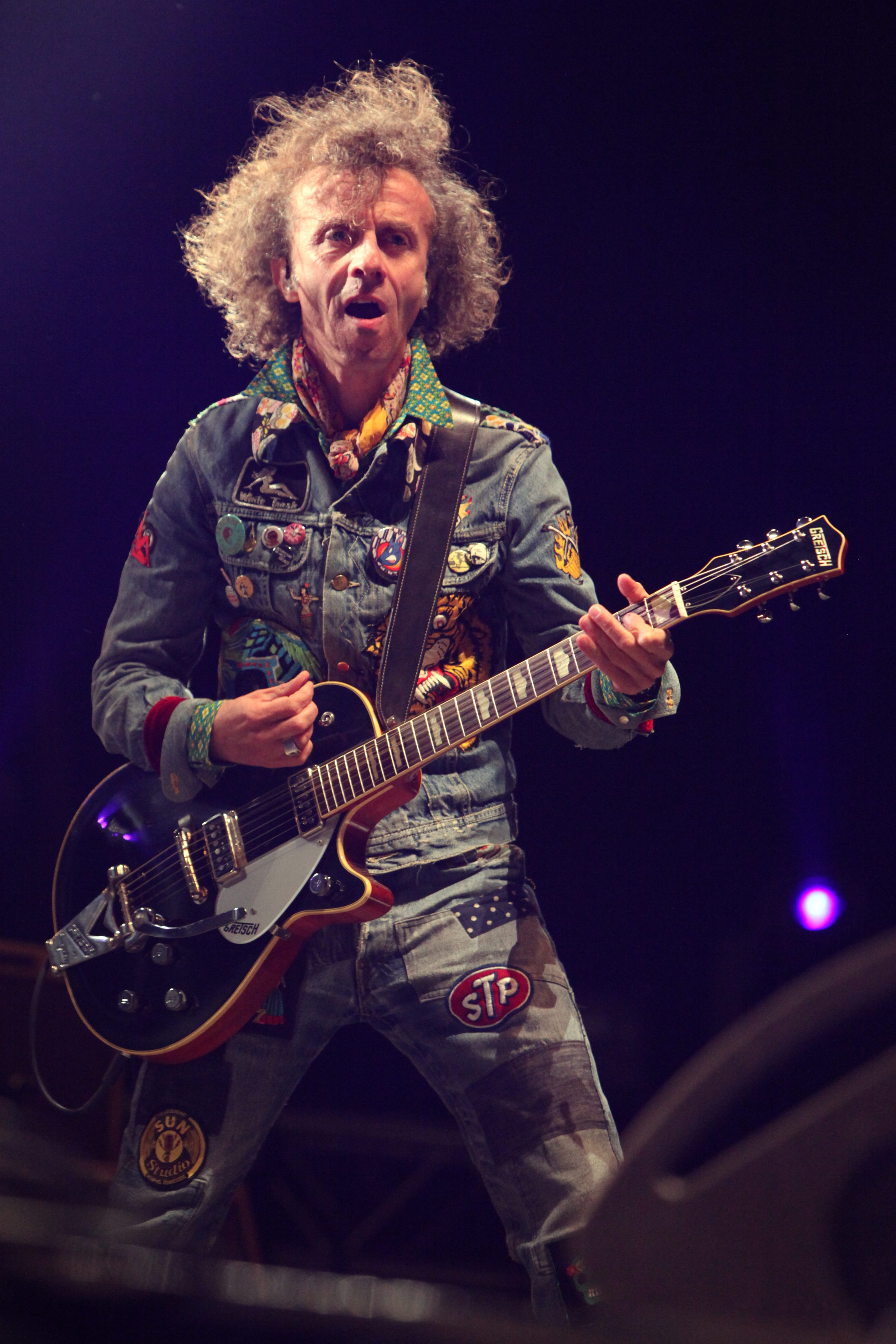 Tony Truant (Les Wampas) at Balelec 2011